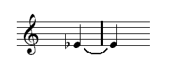 Tied notes with accidental